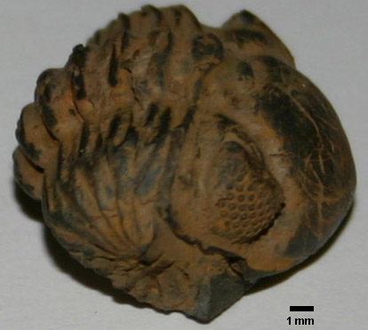 Enrolled Phacops rana from an outcrop of the Middle Devonian Mahantango Formation near Milesburg, Pennsylvania. Collected and photographed by James Stuby.